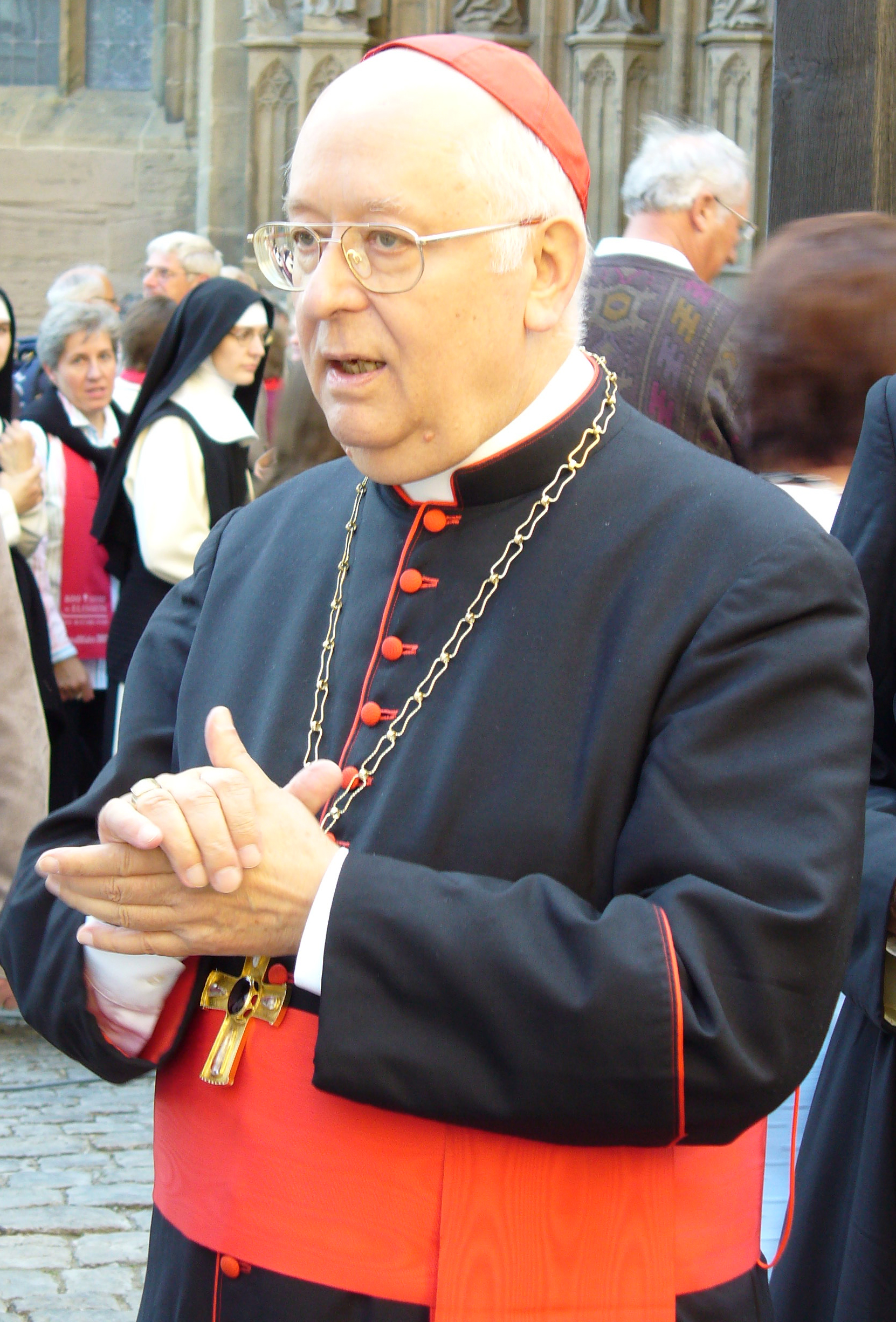 Georg Cardinal Sterzinsky in front of the Erfurt Cathedral